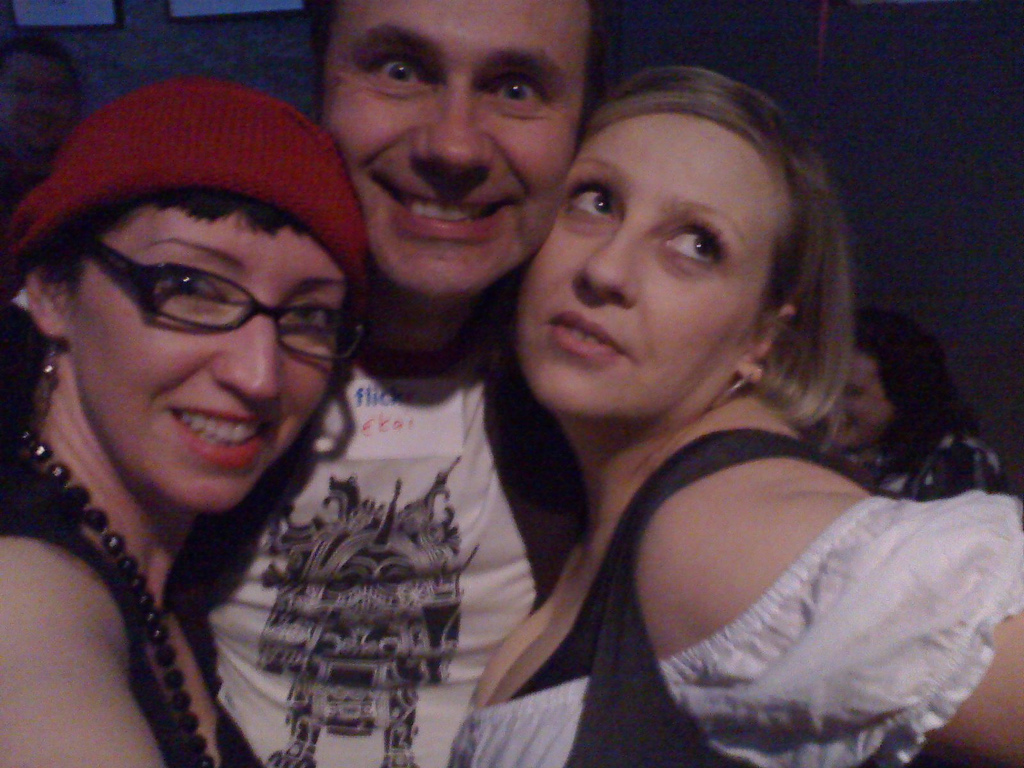 photo by violet blue